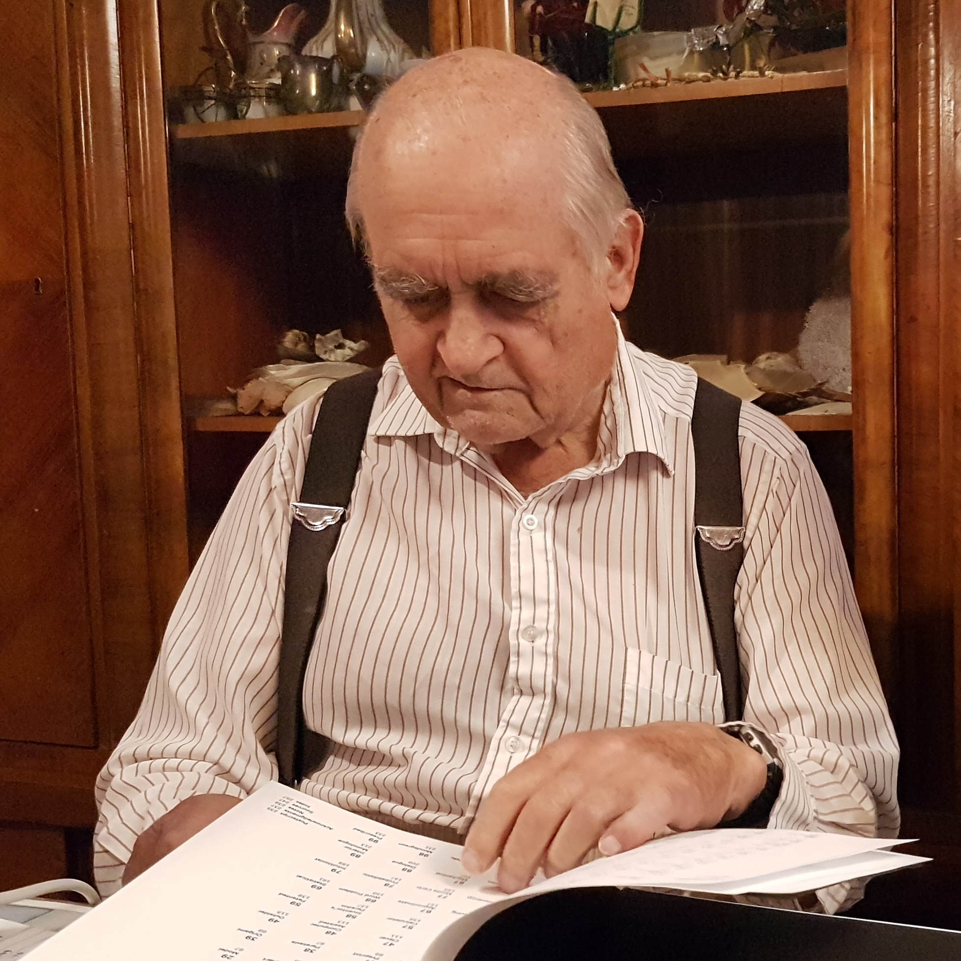 Wolfgang Haken discusses the four colour theorem with Marshall Pangilinan. They are looking at the book 99 Variations on a Proof by Philip Ording. By coincidence Marshall's grandparents live across the street from Professor Haken and both appear on the same page of the book